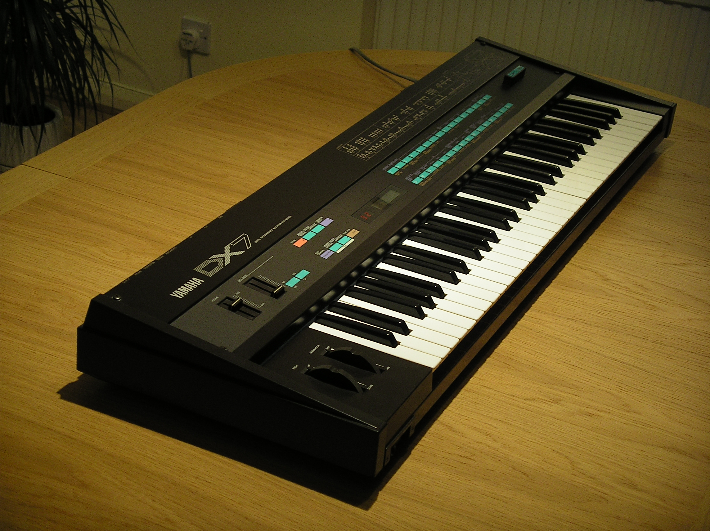 Yamaha DX7 mk 1